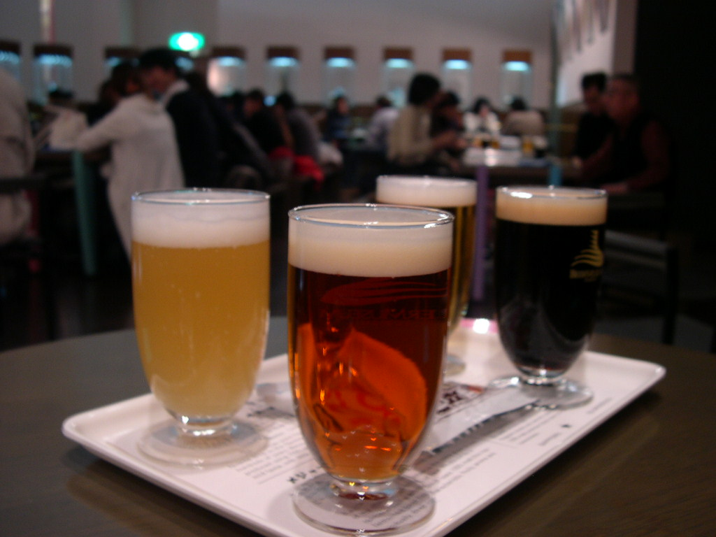 Beer tasting set at Beer Museum Yebisu, Ebisu (Tokyo).